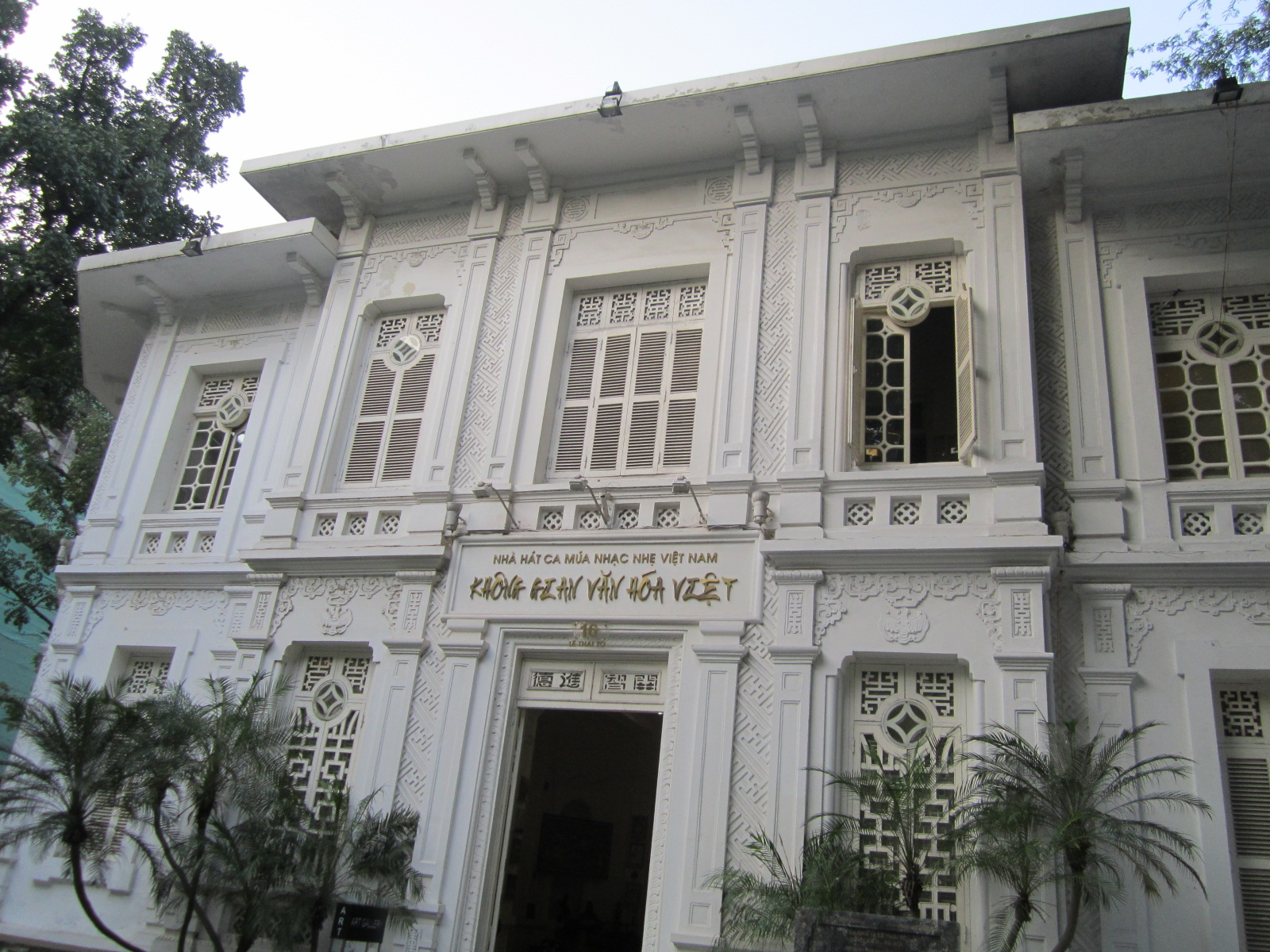 AFIMA Club House — French colonial architecture in Hanoi, Vietnam.